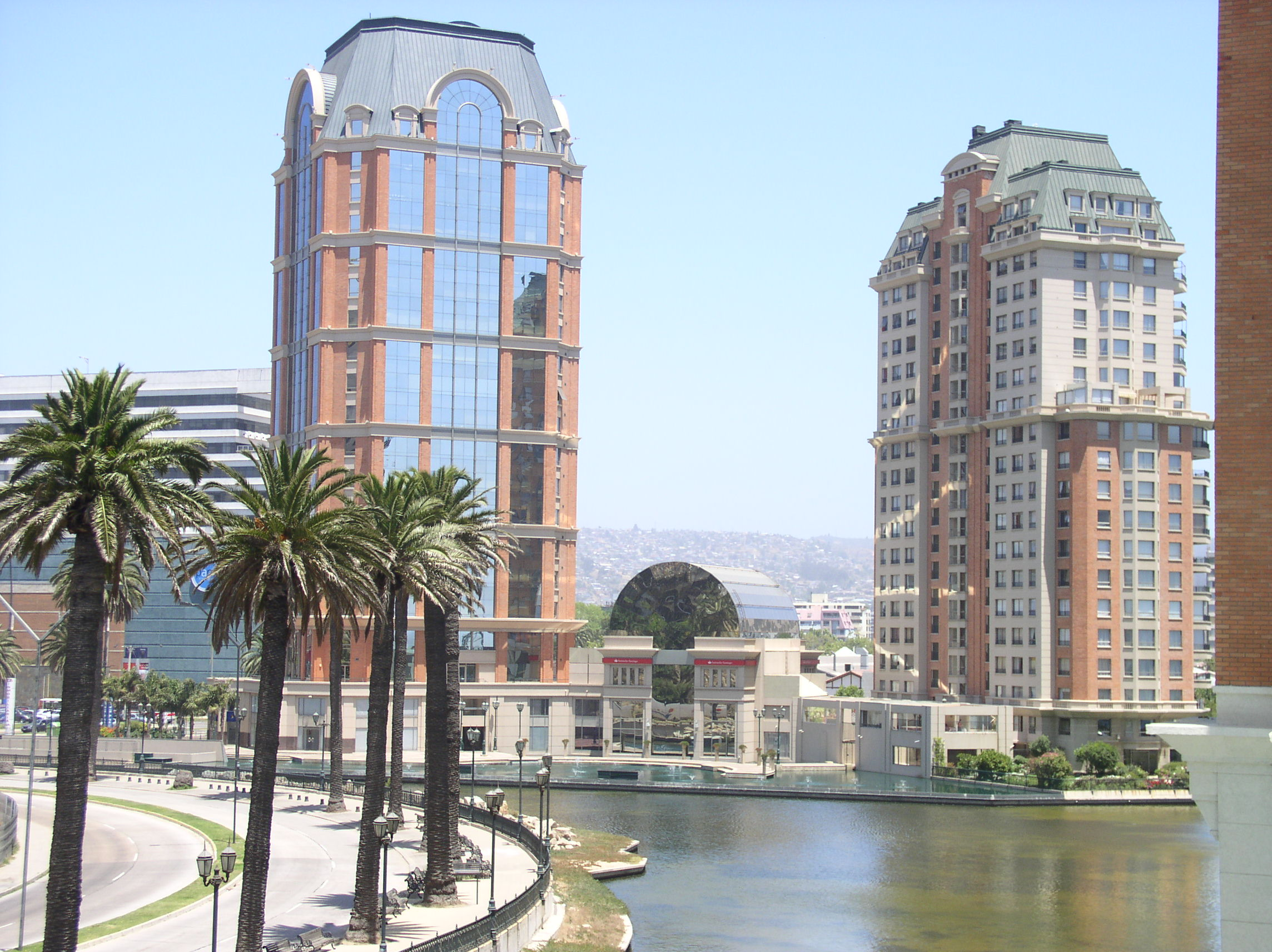 Viña del Mar